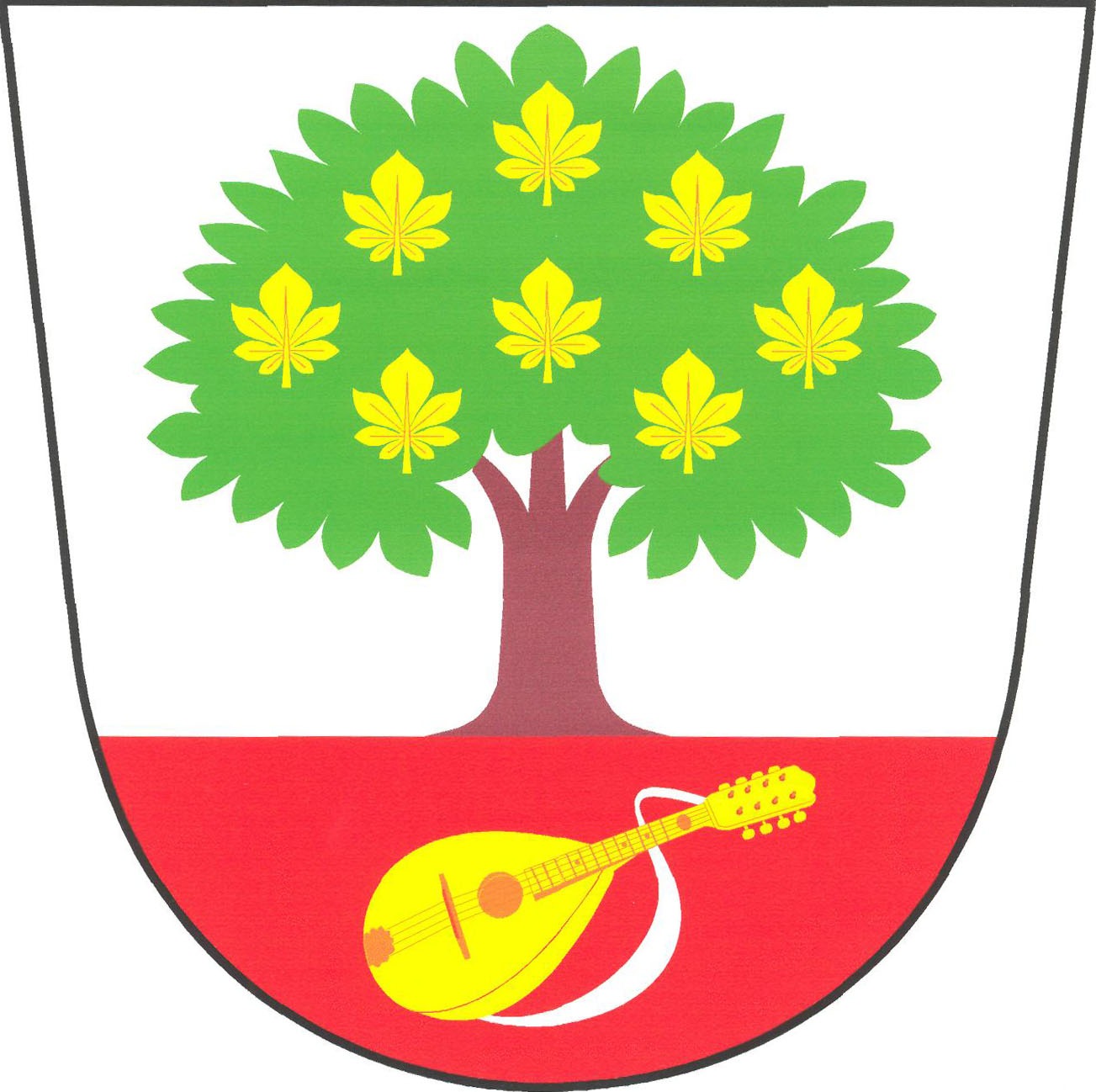 Municipal coat of arms of Kutrovice village, Kladno District, Czech Republic.